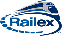 Railex Logo